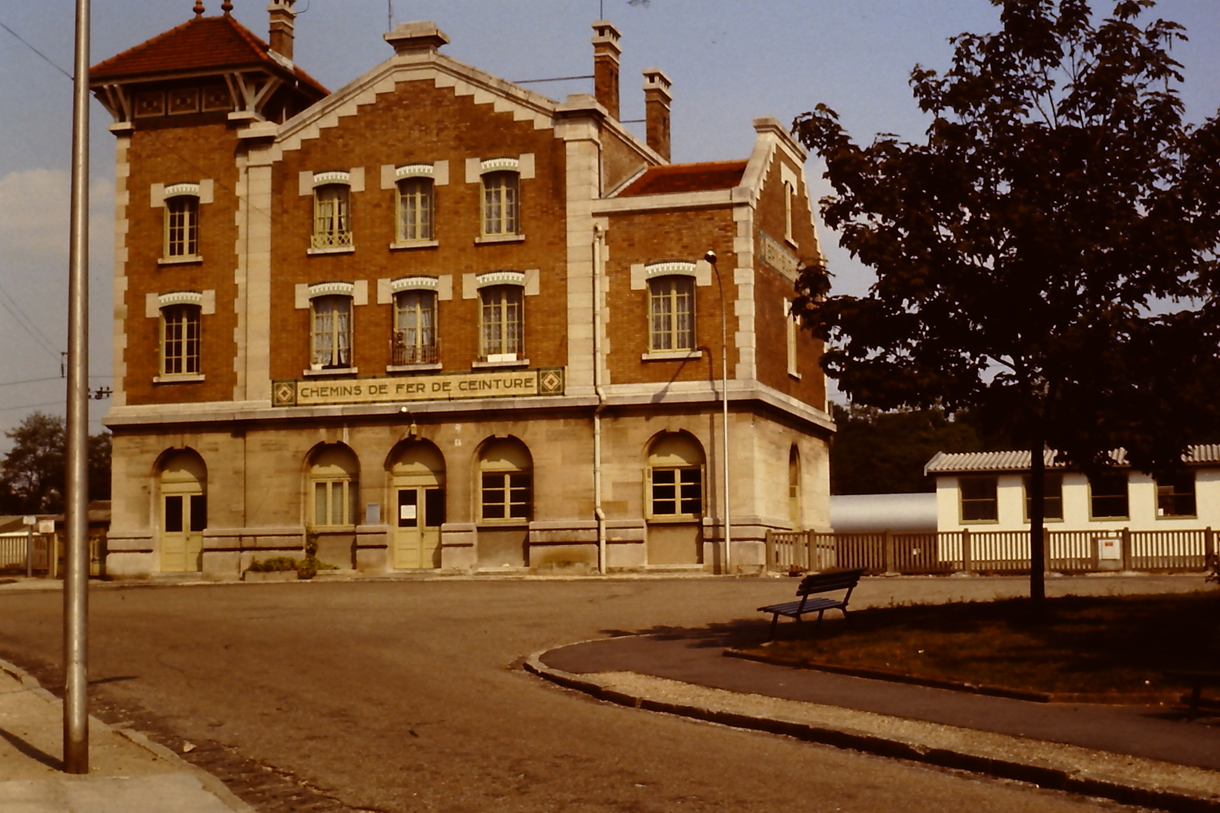 Bry-sur-Marne railway station, "Grande-Ceinture" network